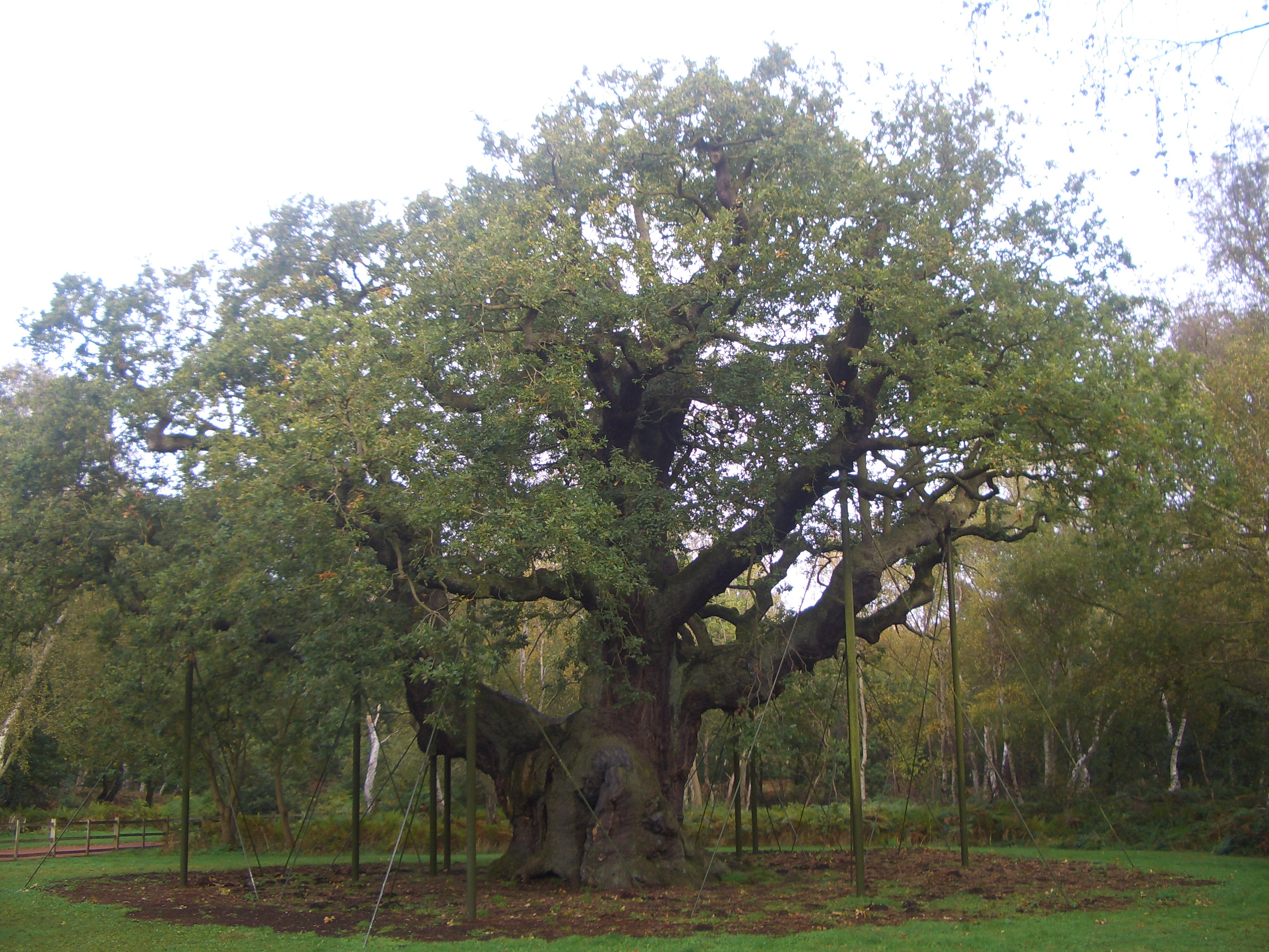 The Major Oak in Sherwood Forest October 2012